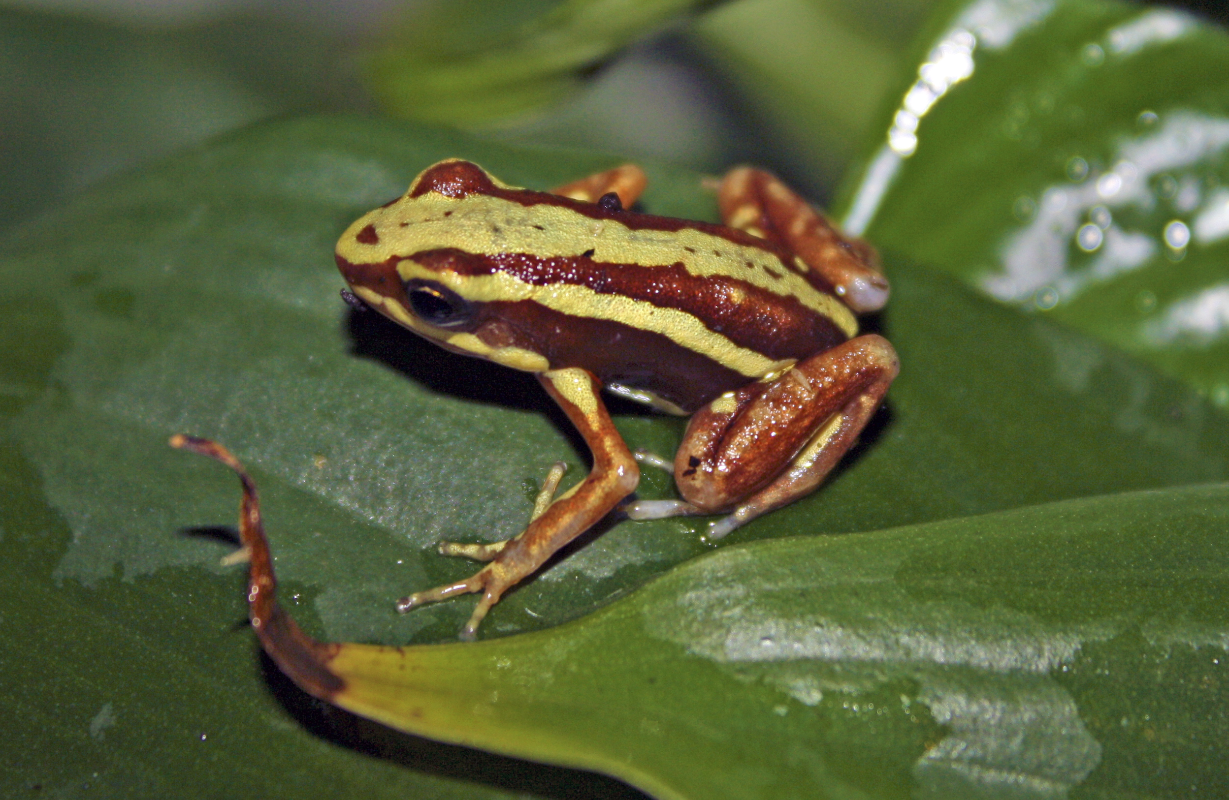 picture of Epipedobates tricolor